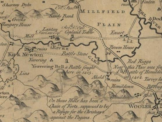 A detail from Armstrong's 1769 map of Northumberland showing the course of the River Glen